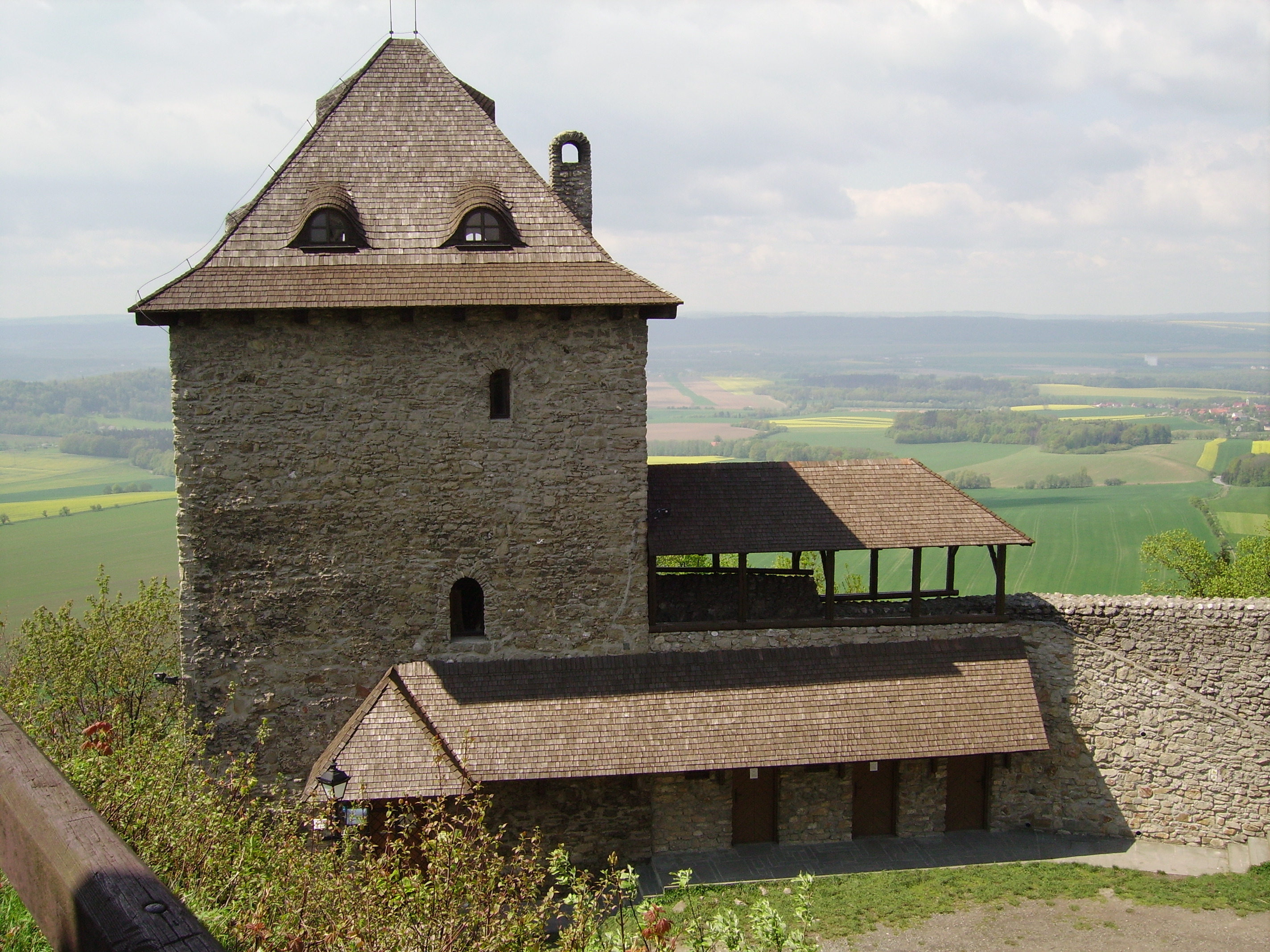 Stary_Jicin_Castle03.JPG